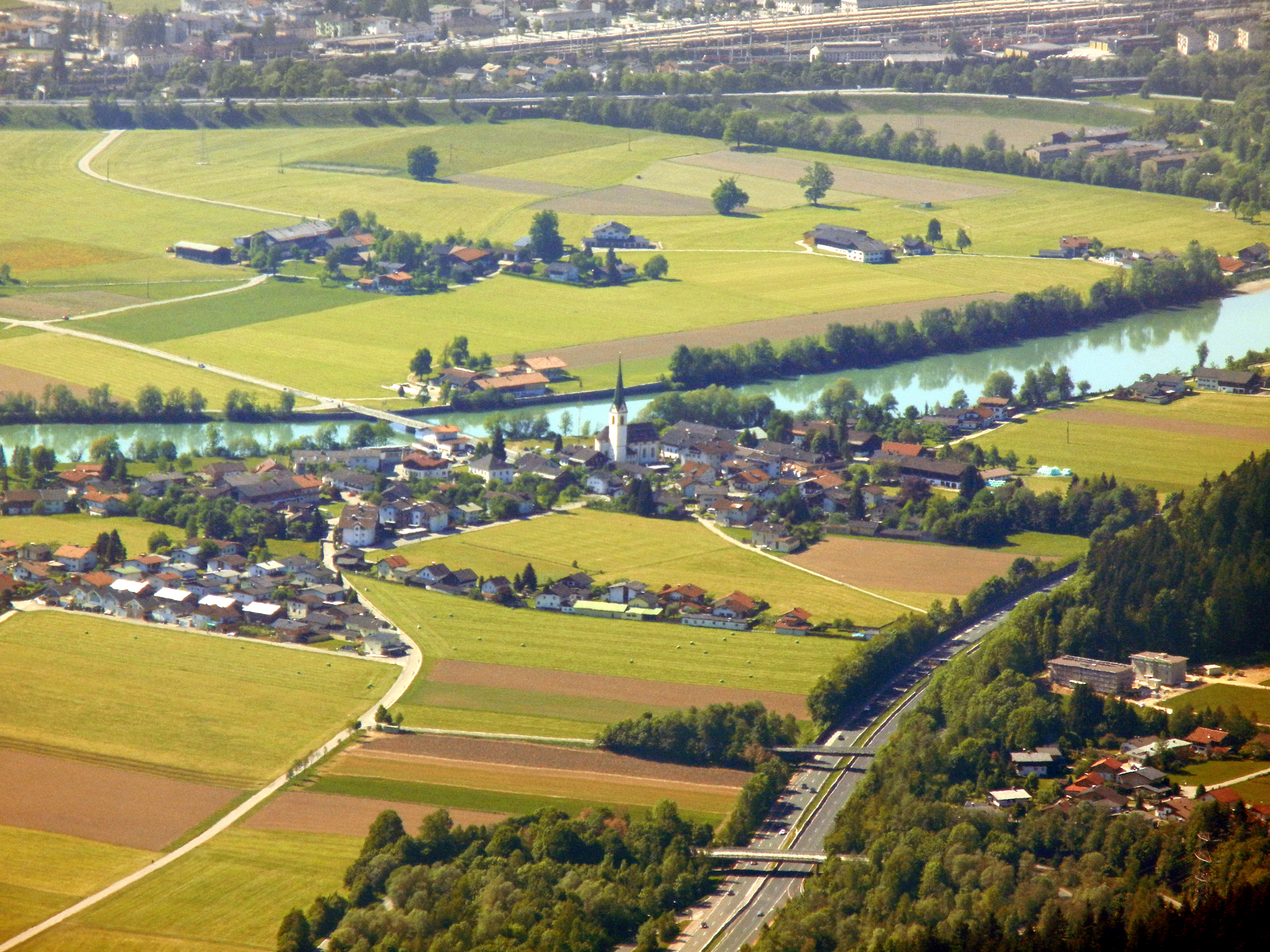 The town of Angath in Tyrol, Austria.